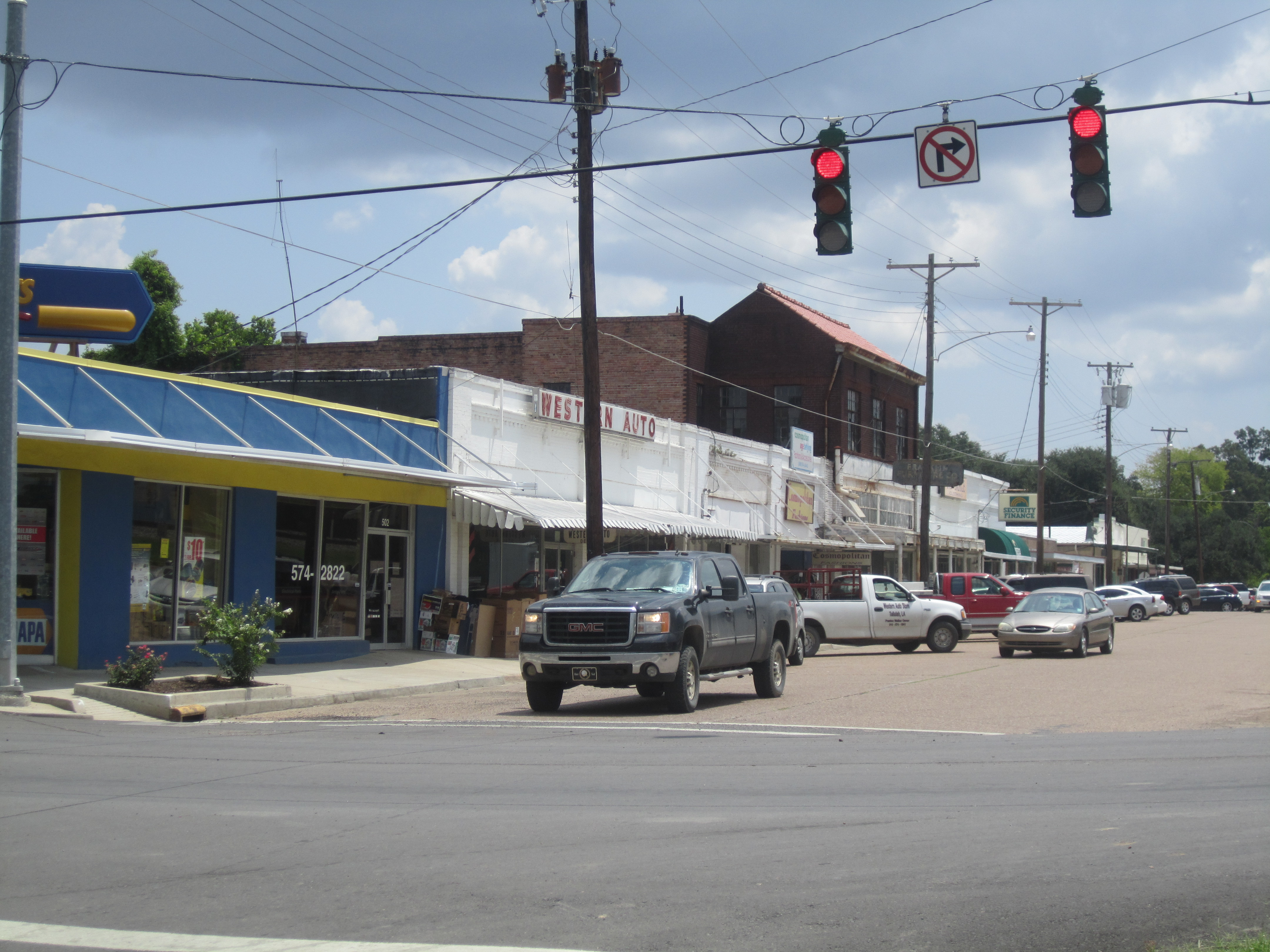 I took photo in Tallulah, LA, with Canon camera.